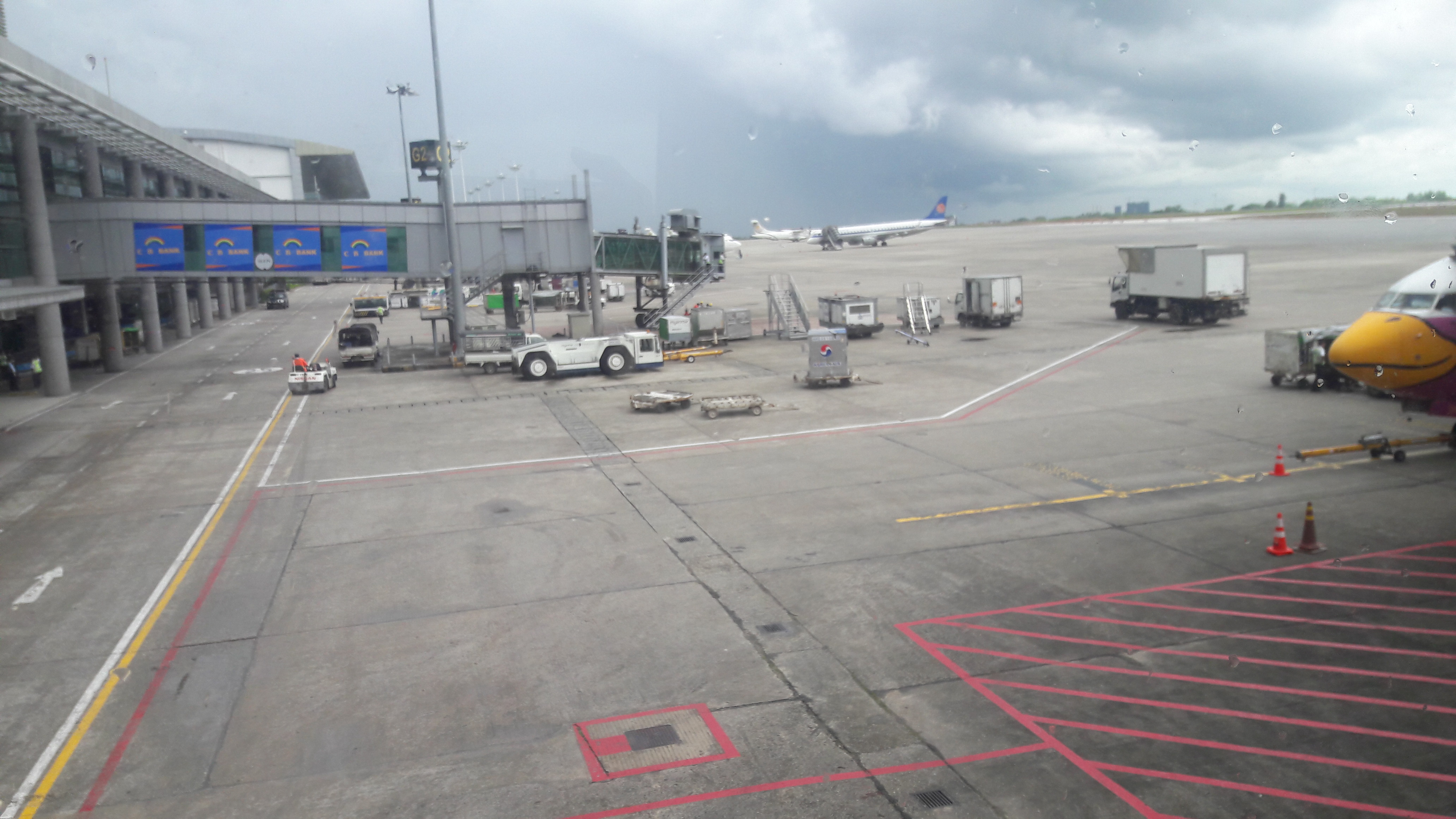 Apron of Yangon Airport